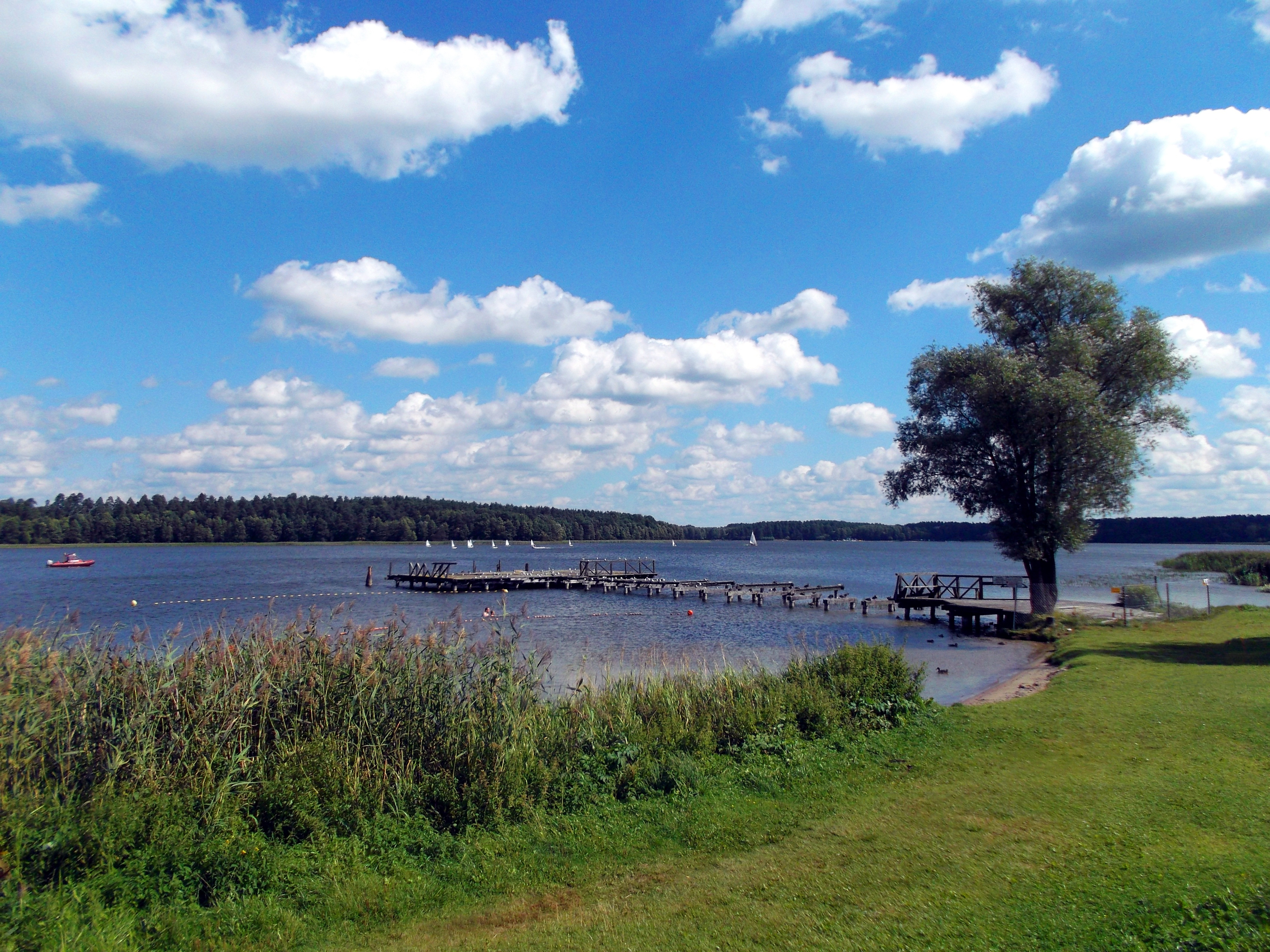 Lake Necko in Augustów (Poland). View from quarter Borki.